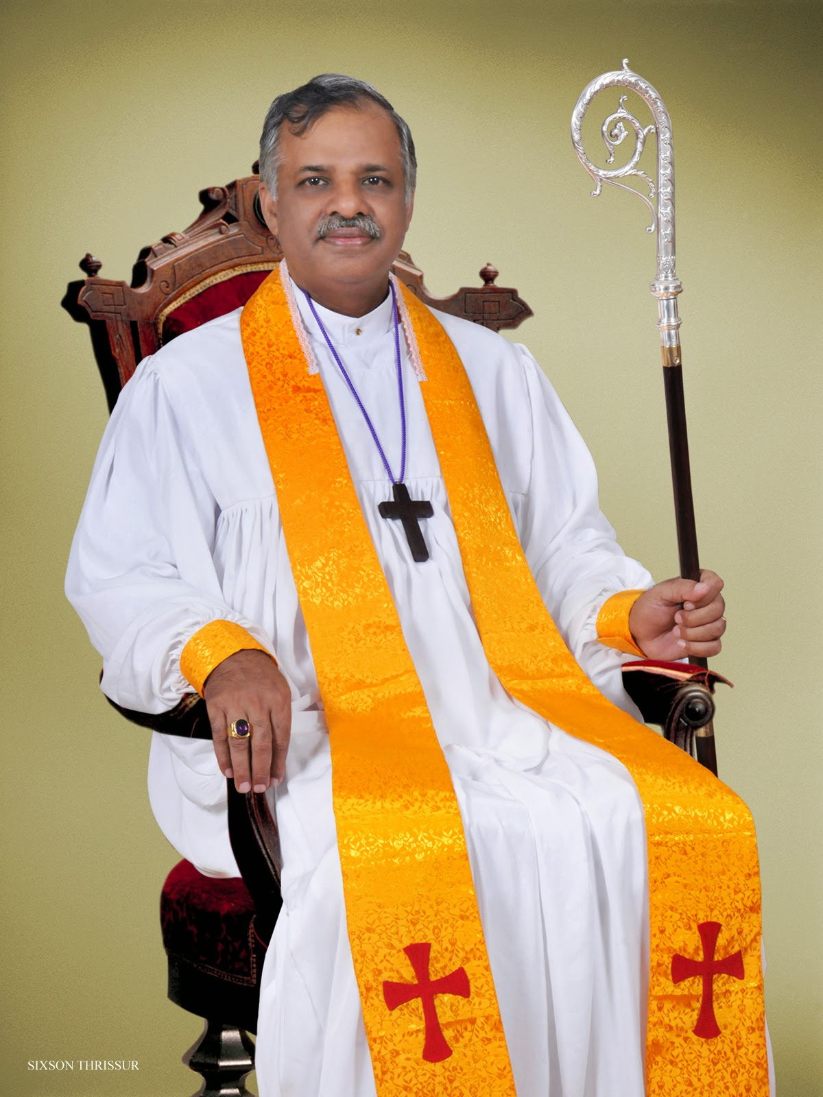 An image of The Rt. Reverend B.N. Fen